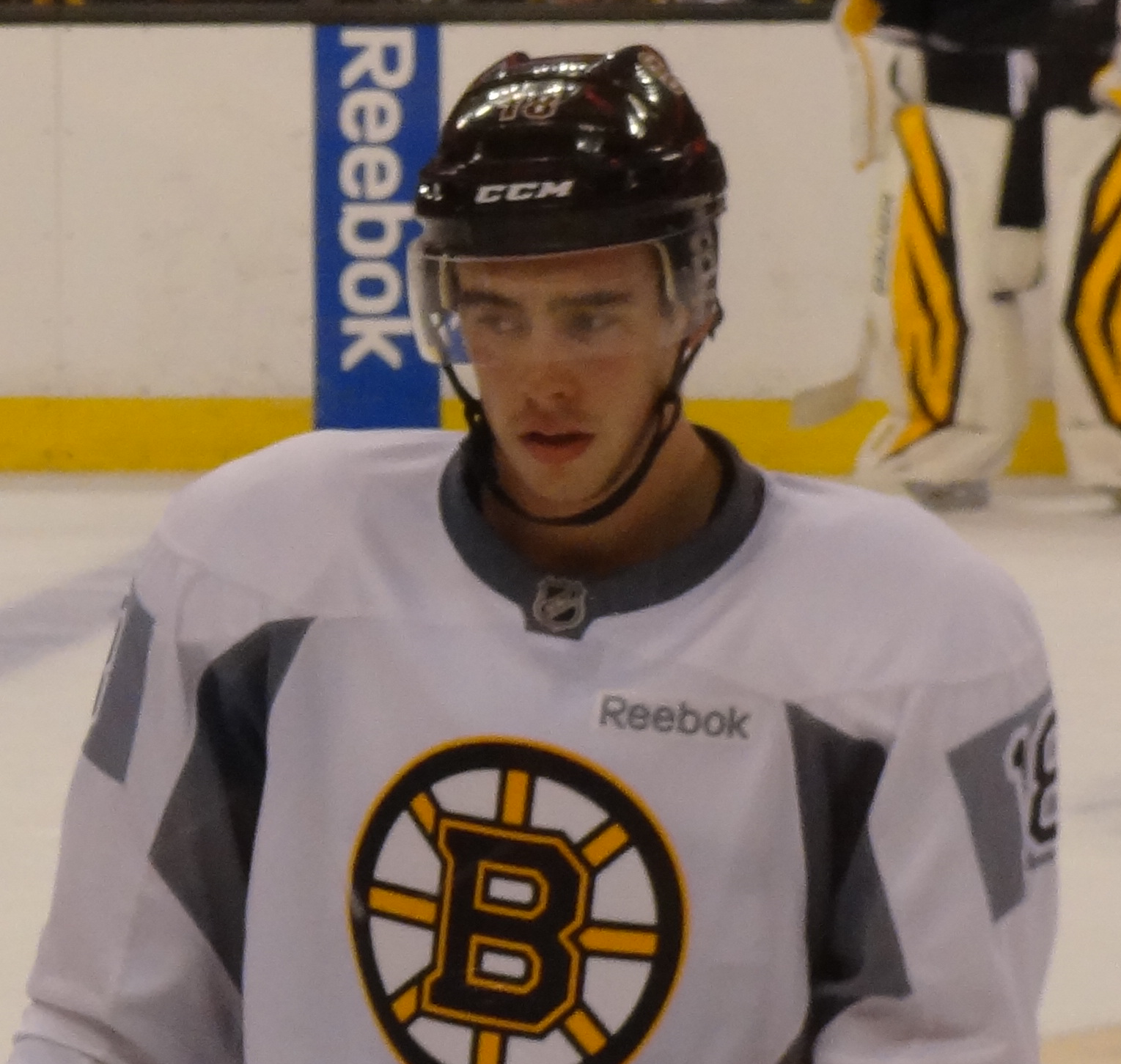 Reilly Smith at the Boston Bruins training camp.